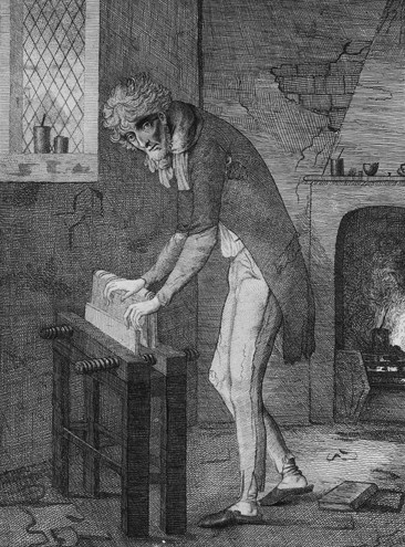 Portrait of Roger Payne (1739–1797), English bookbinder.